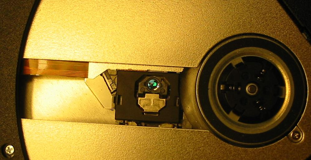 DVD pick-up head and drive